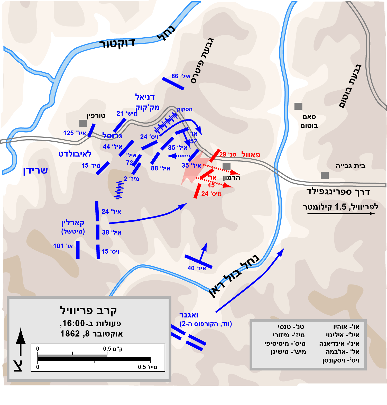 Map of the Battle of Perryville of the American Civil War. Drawn by Hal Jespersen in Adobe Illustrator CS5. Graphic source file is available at